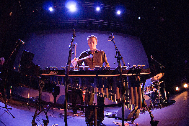 Luxembourg jazz musician Pascal Schumacher performing at the "12 Points Festival" in Dublin, Ireland on 5 March 2008 License on Flickr (2011-01-07): CC-BY-2.0 Flickr tags: giova, giovanni, guidi, 4tet, shreefpunk, pascal, schumacher, jazz